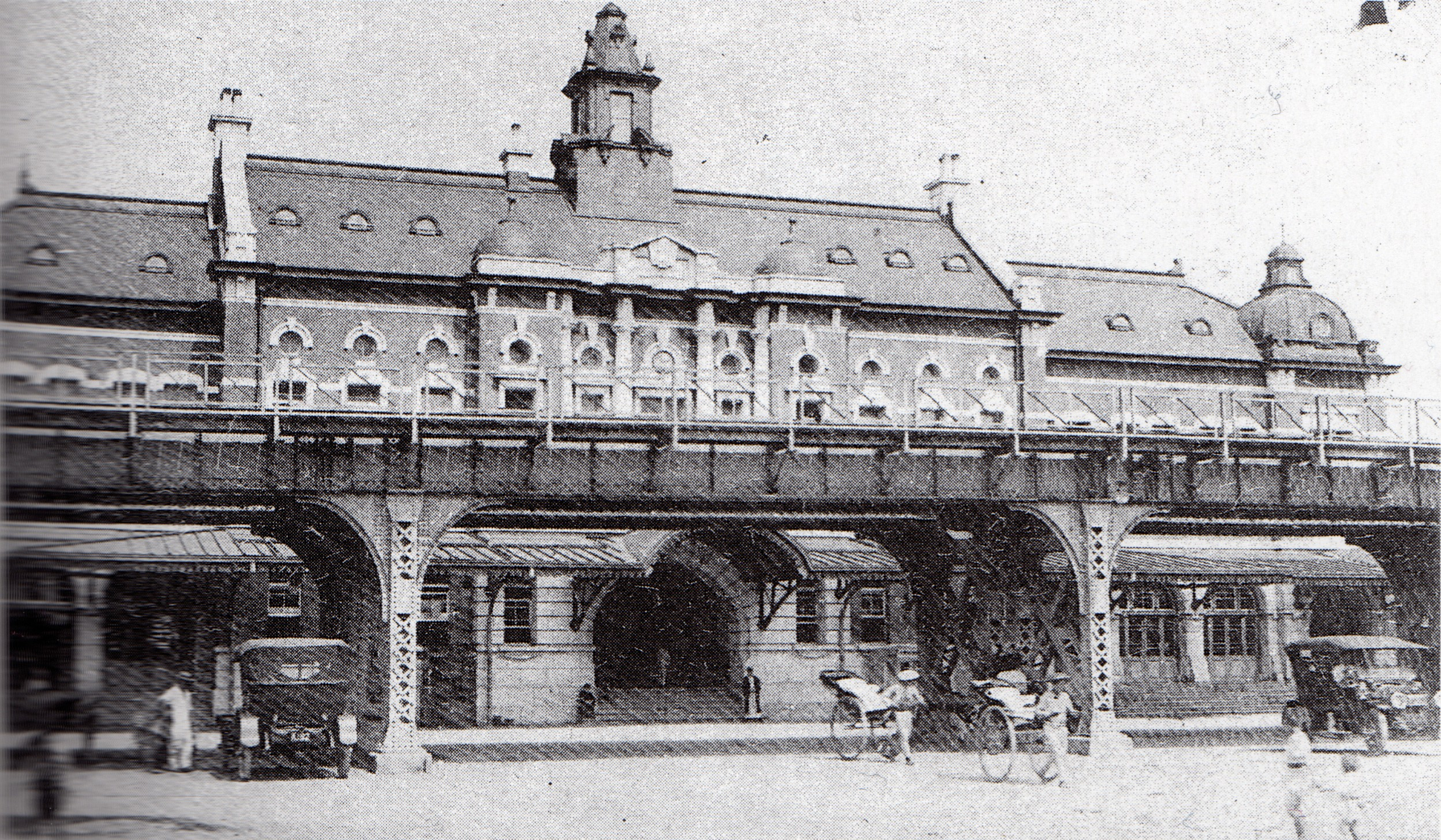 Reconstructed Yokohama station building and elevated freight line in front of the station; the building had been partially destroyed at the Great Kanto Earthquake by catching fire. Taxi could be Daihatsu.